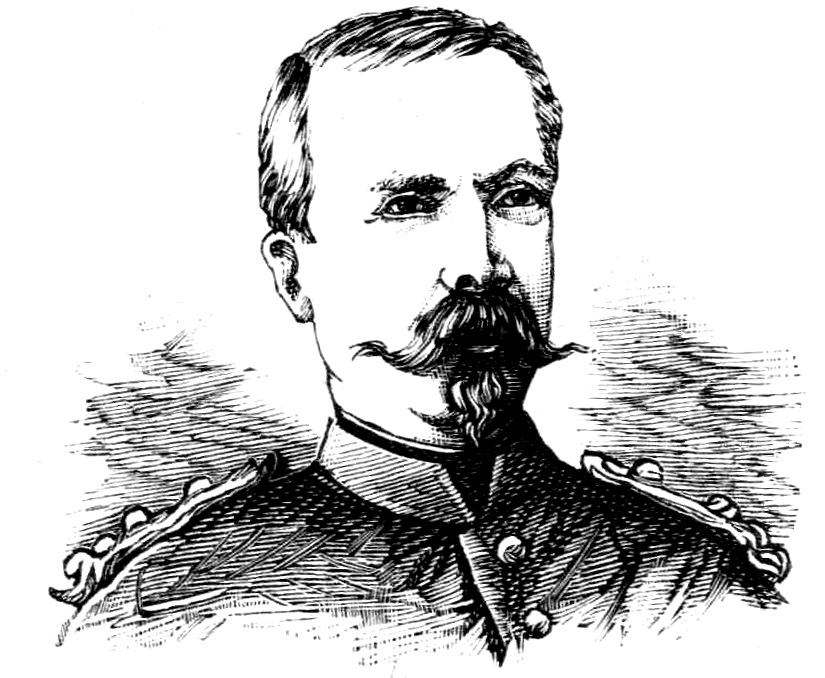 Othon Kaklamanos (1846-1886): Greek soldier, illustration from Imerologion Skokou 1887